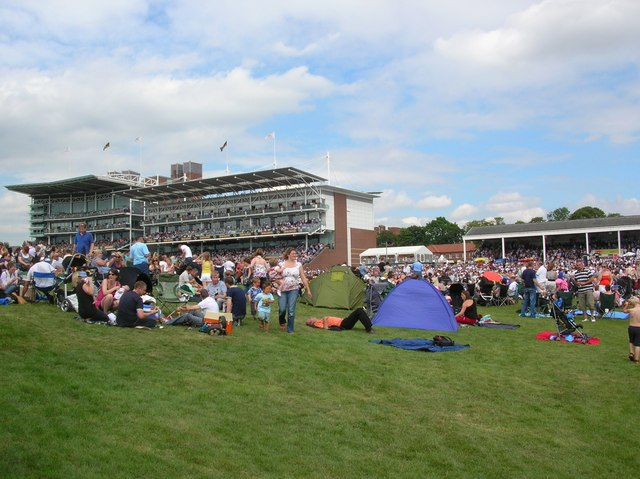 John Smith's Day 2009 The 50th John Smith's meeting at York Racecourse. Looking across the track from left to right are the Ebor, Knavesmire and Silverring stands.